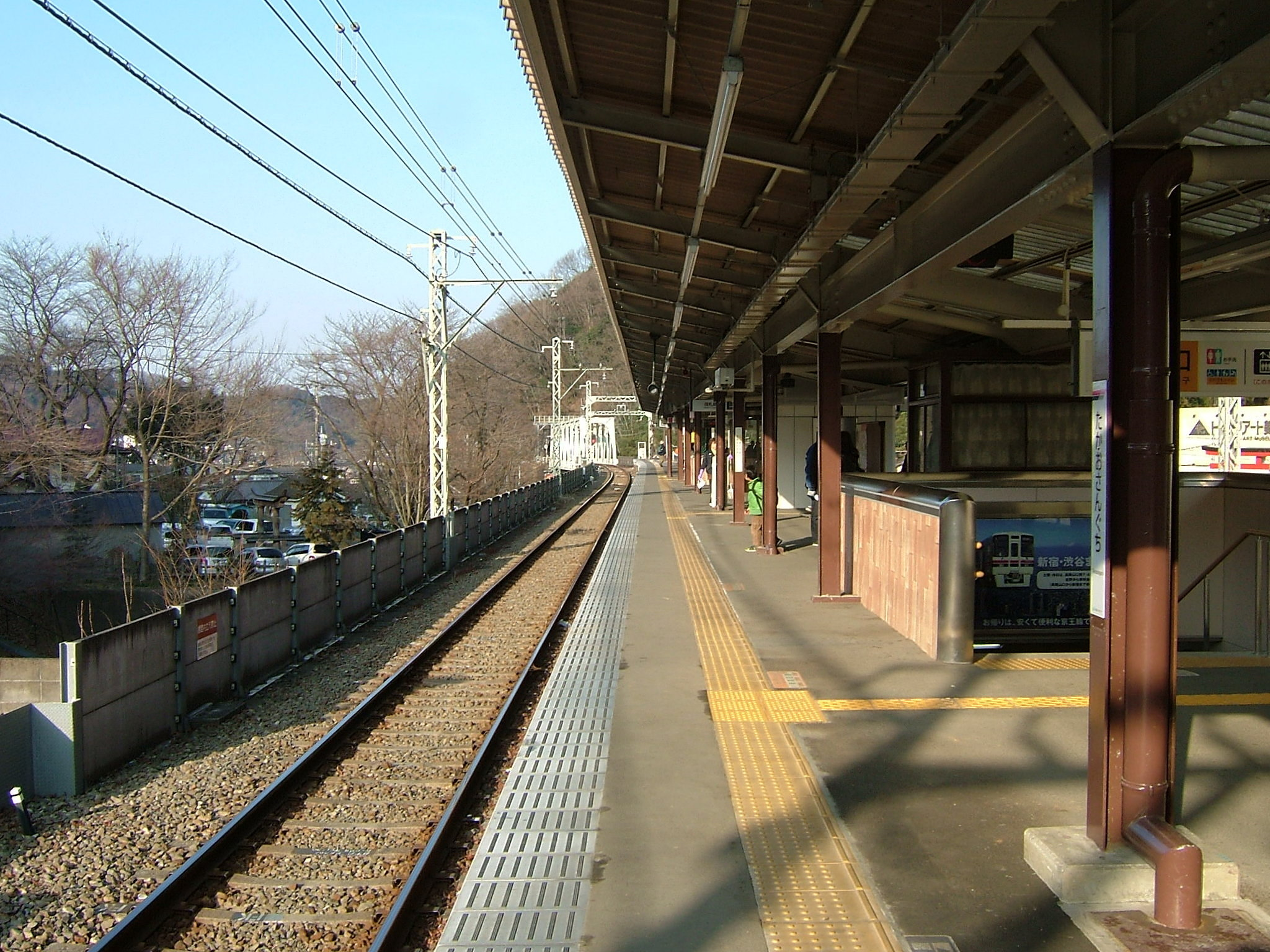 The platforms at Takaosanguchi Station